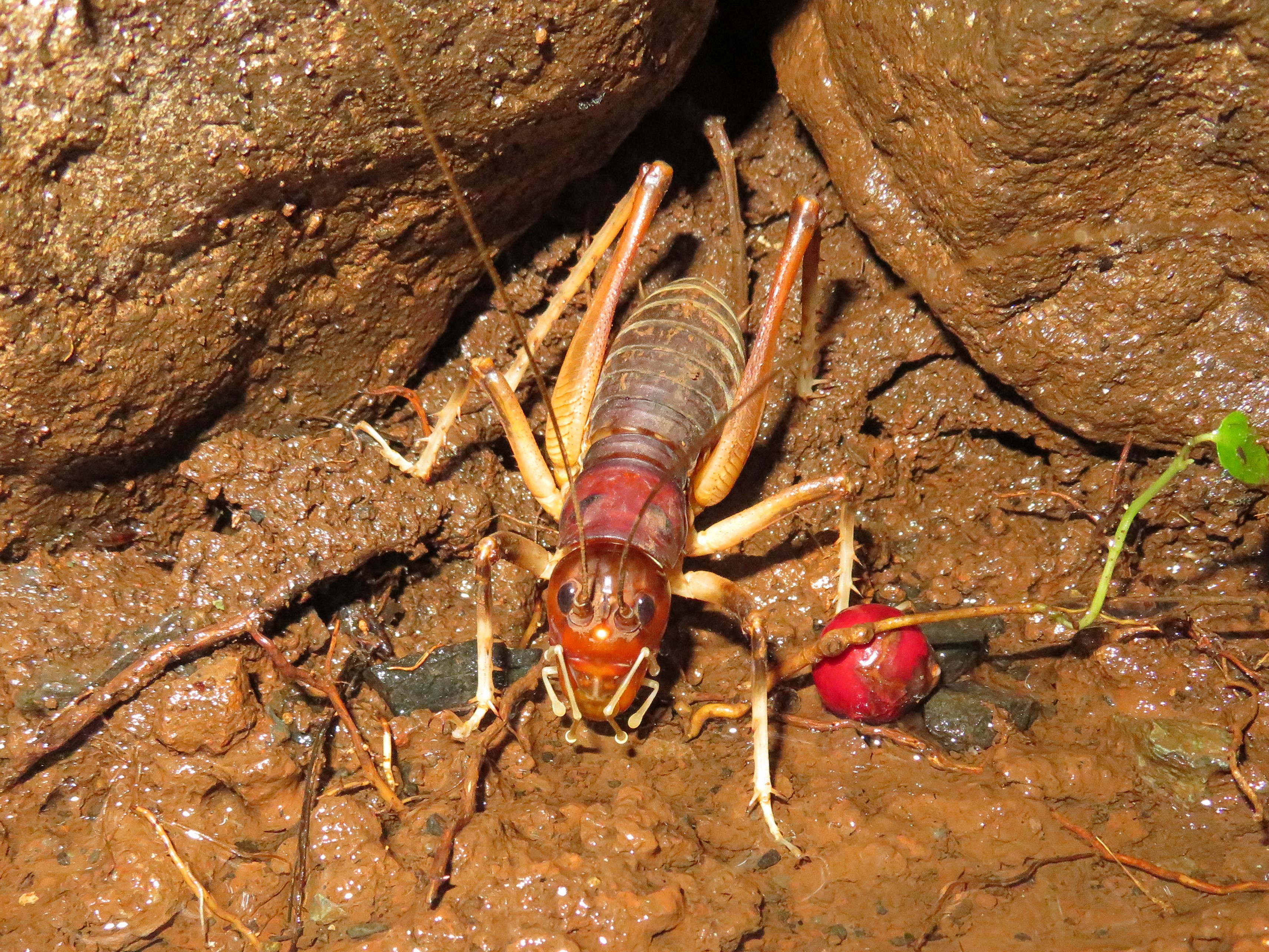 Anostosoma australasiae female, Mt Tambourine, QLD, Australia.